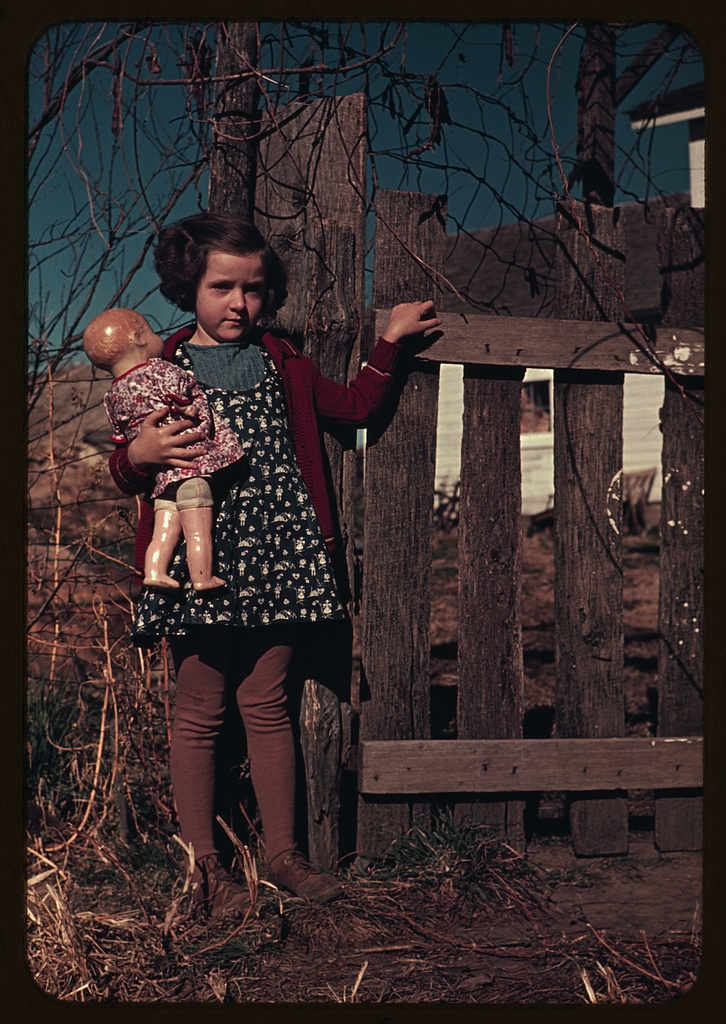 Title: [Girl with doll standing by fence]